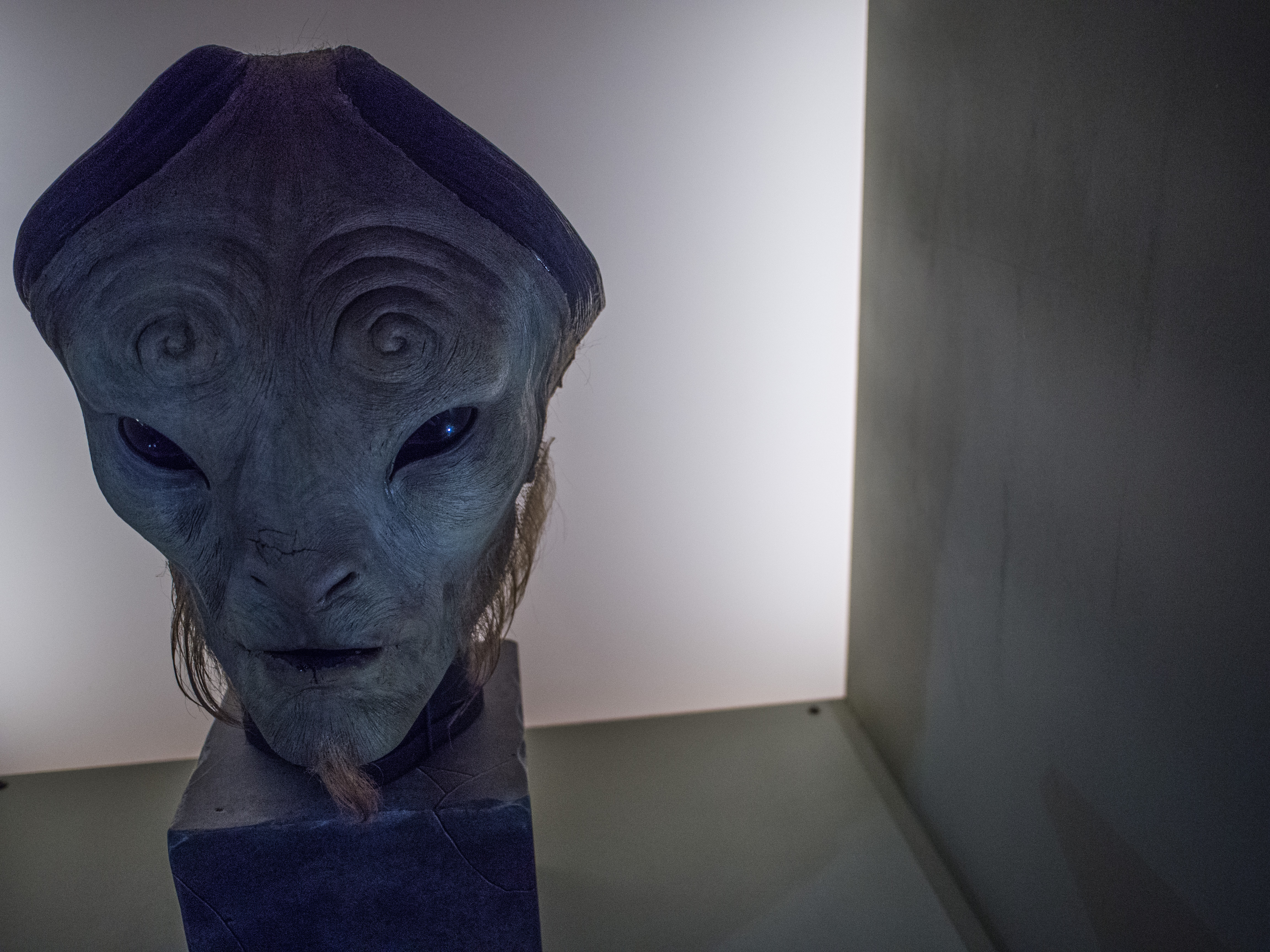 Faun face from Pan's Labyrinth displayed at Fantasy: Worlds of Myth and Magic, Experience Music Project/Science Fiction Hall of Fame, Seattle.